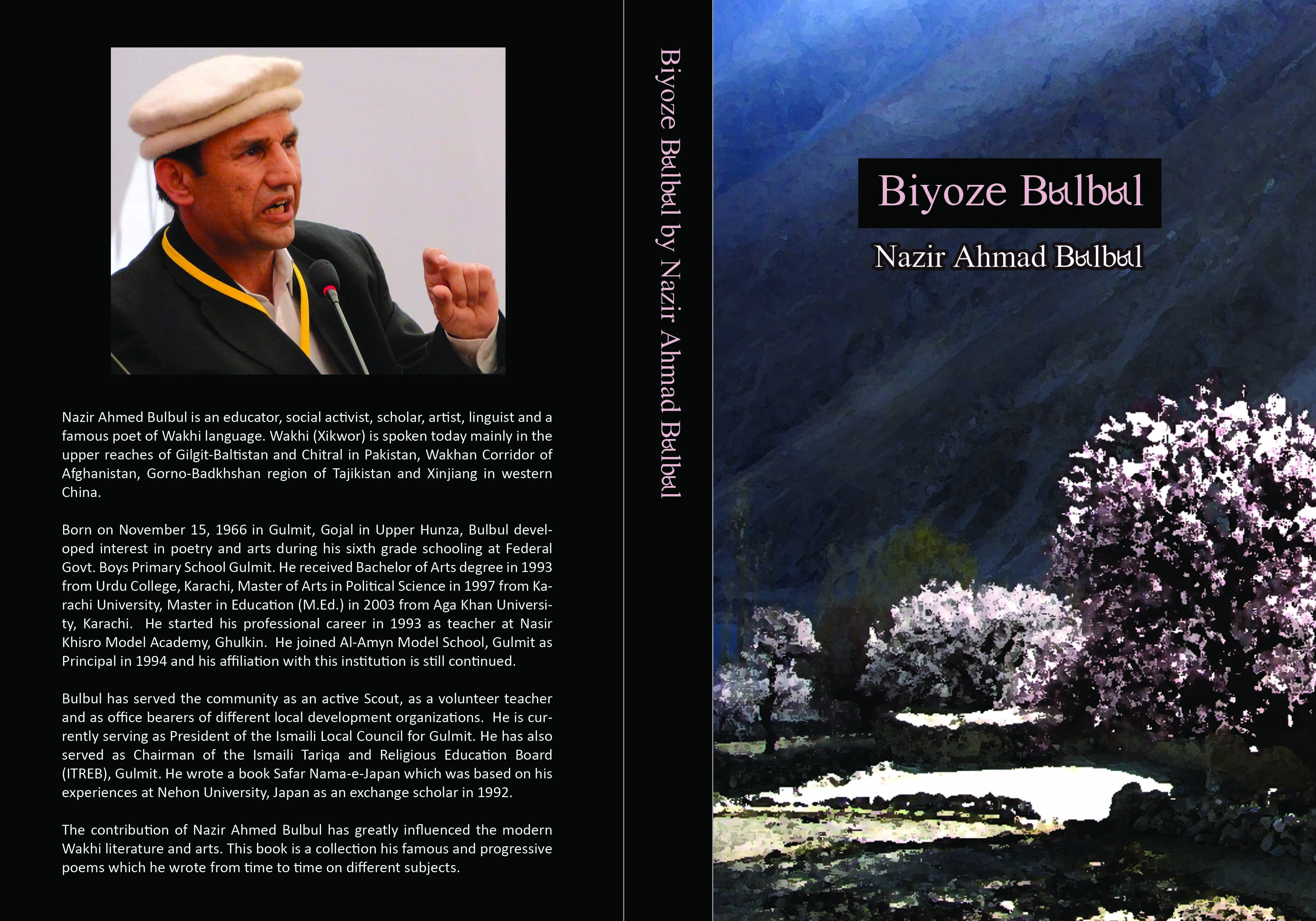 Front and Back Cover of Biyoz-e-Bulbul, wakhi poetry booklet